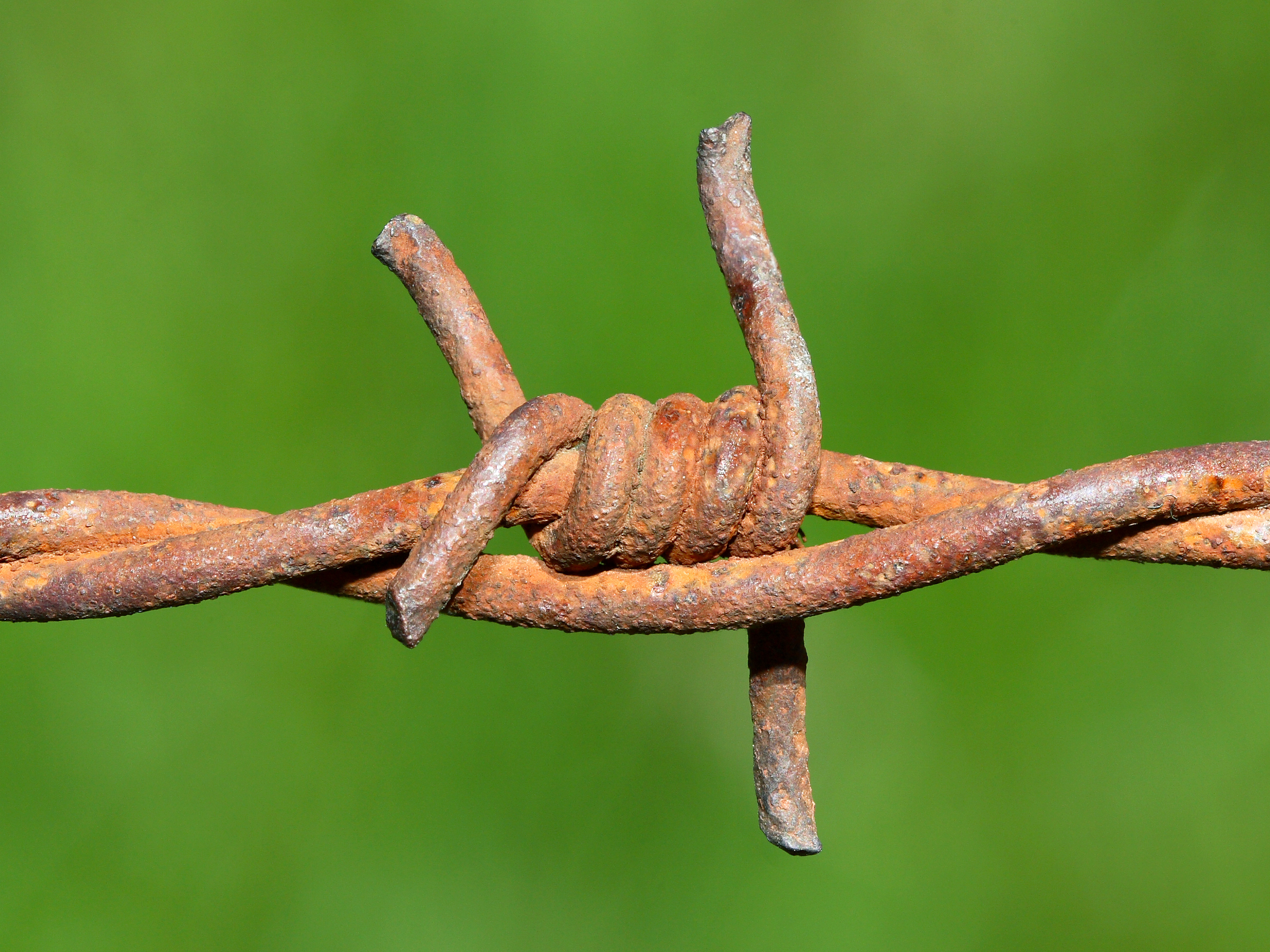 Barbed wire (rusting after years of hard work)